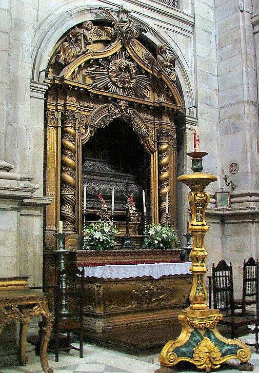 Blessed Theresa of portugal's tomb (Lorvao Monastery)